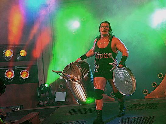 Rhino at a TNA Impact taping in Orlando Florida Photo by Rob Beukema